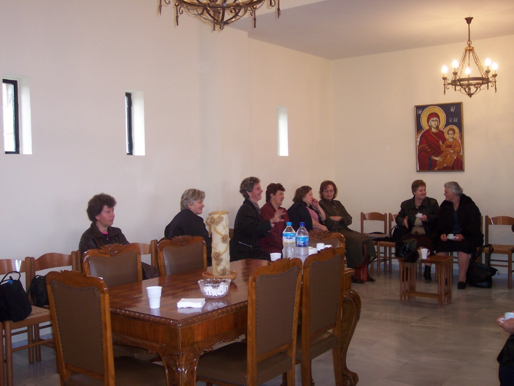 Lunch with the cancer screening patients